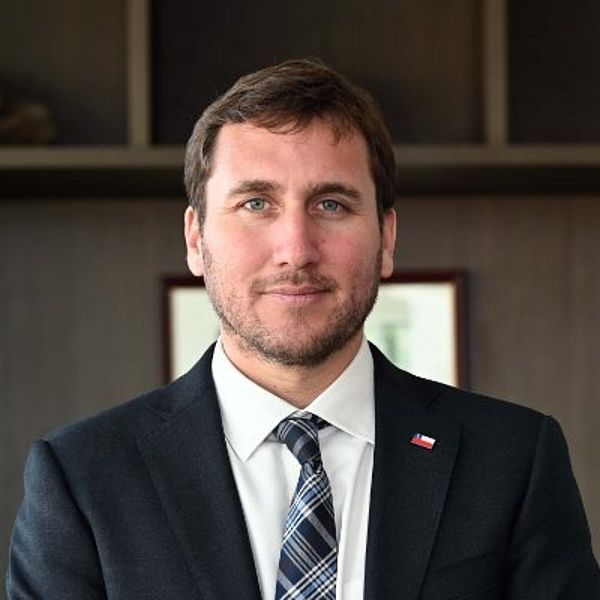 Official photo of Pablo Terrazas as Councilor of the Business System (SEP) at the Ministry of Economy, Development and Tourism, 2019